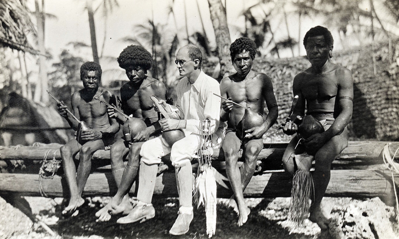 Picture of Bronislaw Malinowski with natives on Trobriand Islands.